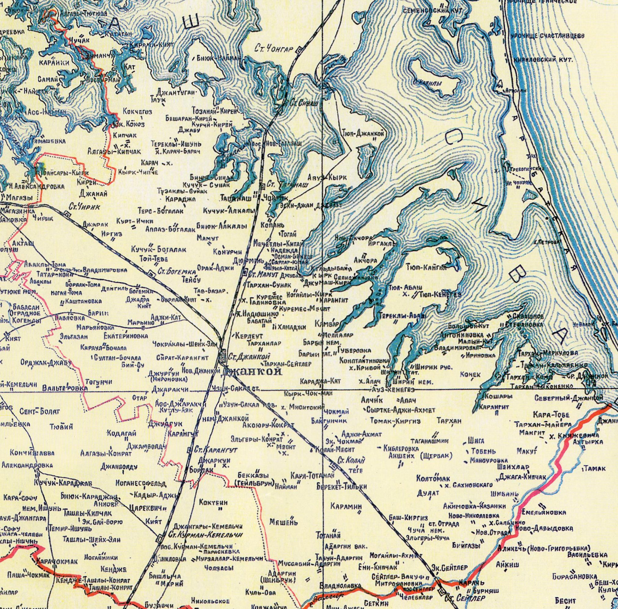 Dzhankoysky district, in 1922.